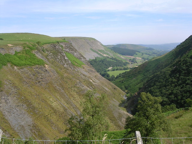 Afon Twymyn gorge. The head of the Twymyn valley with the escarpment of Craig y Maes on the left. Taken from the viewpoint on the minor road 1 mile East of Dylife.